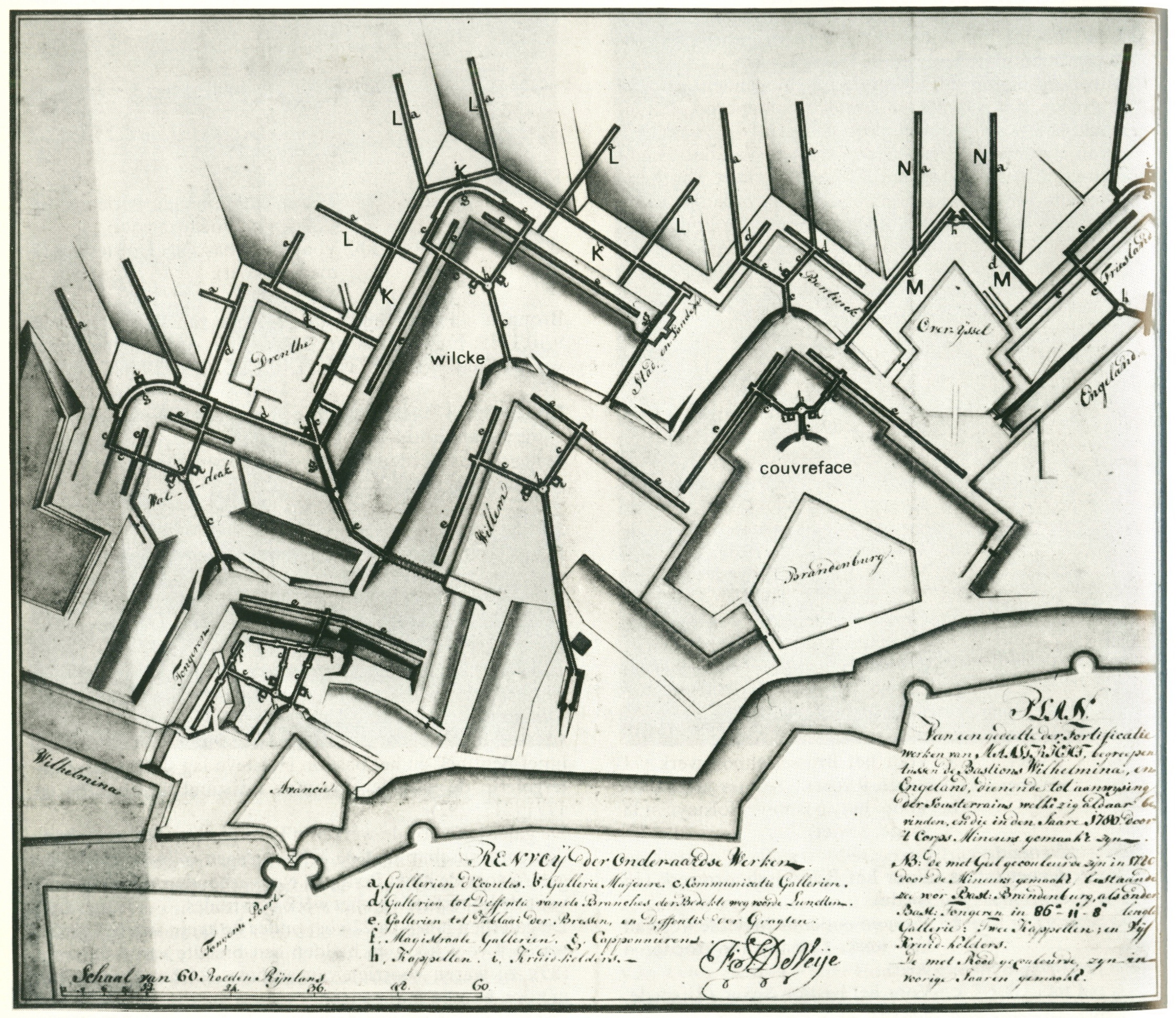 View of underground 'mines', corridors connecting the various casemates, in the southwestern part of the Maastricht fortifications, built in 1771-'80, partly demolished.